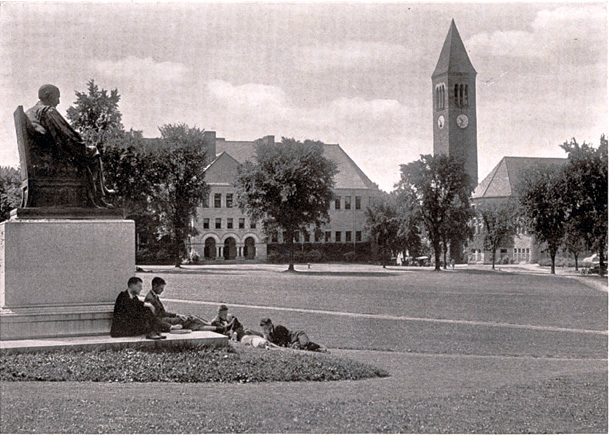 The Cornell Arts Quad as seen in 1919. On the left is a statue of Andrew Dickson White, in the center is Boardman Hall, a now demolished Cornell library, and on the right is Uris Library and the Cornell Clocktower.